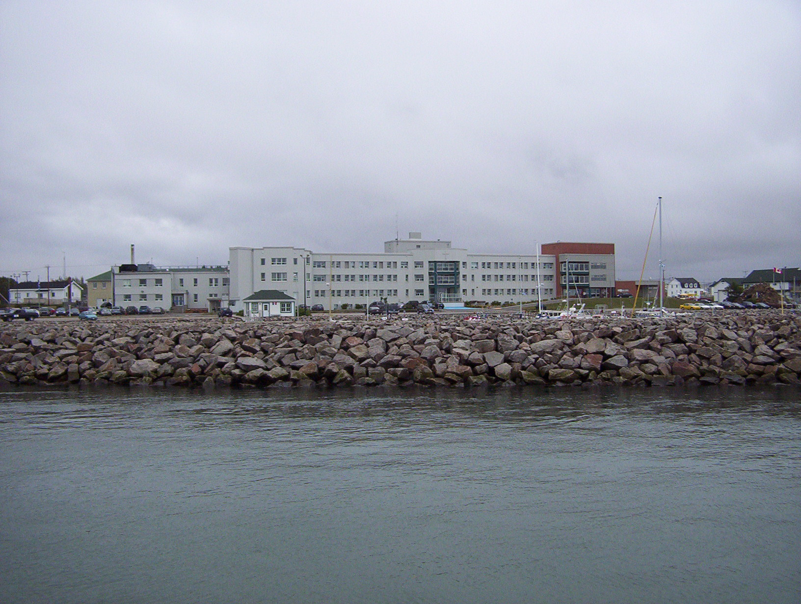 The Havre-Saint-Pierre, Quebec hospital.